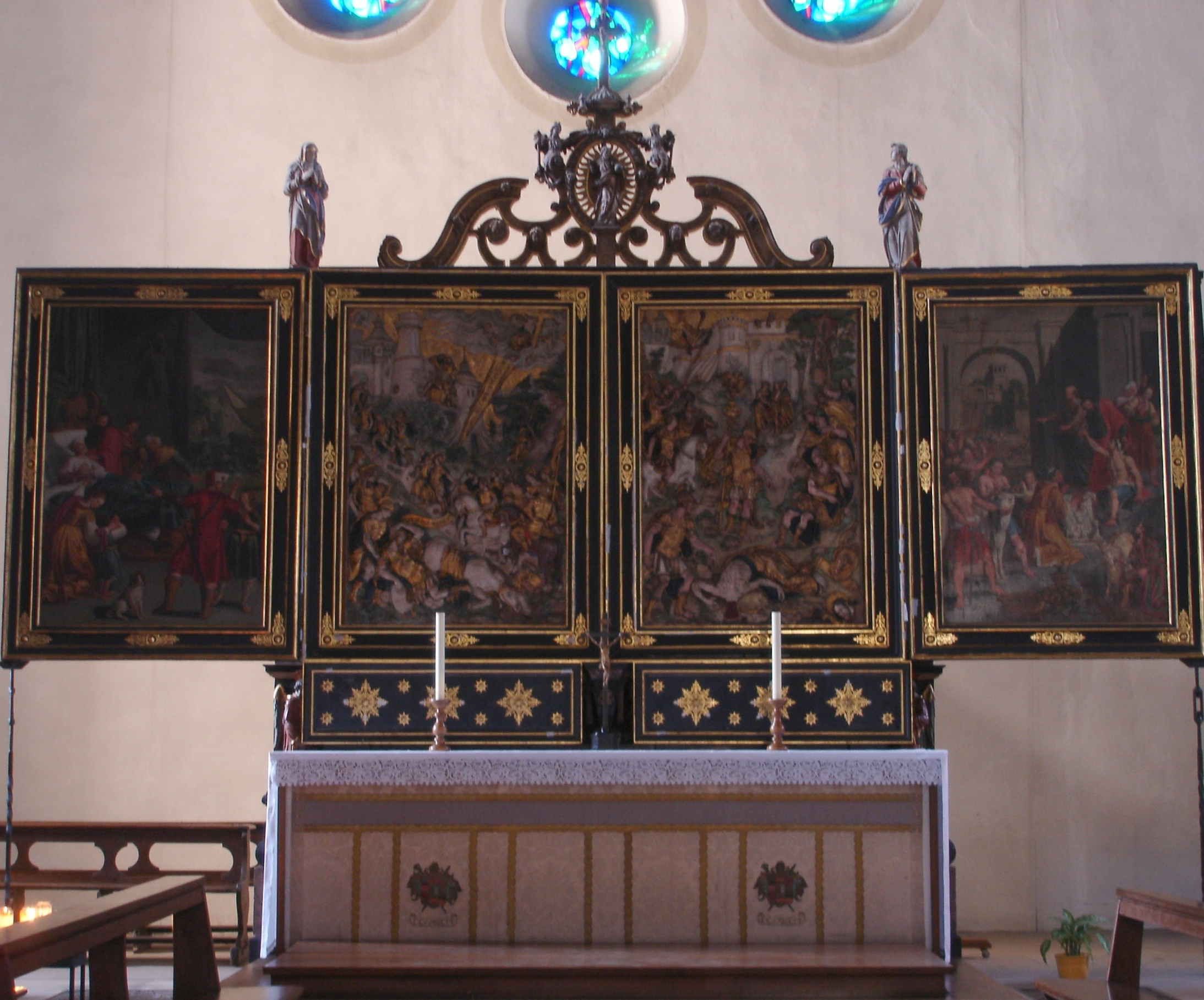 St. Paul's altar in the St.-Pauls-Cathedral in Münster, Westphalia, Germany